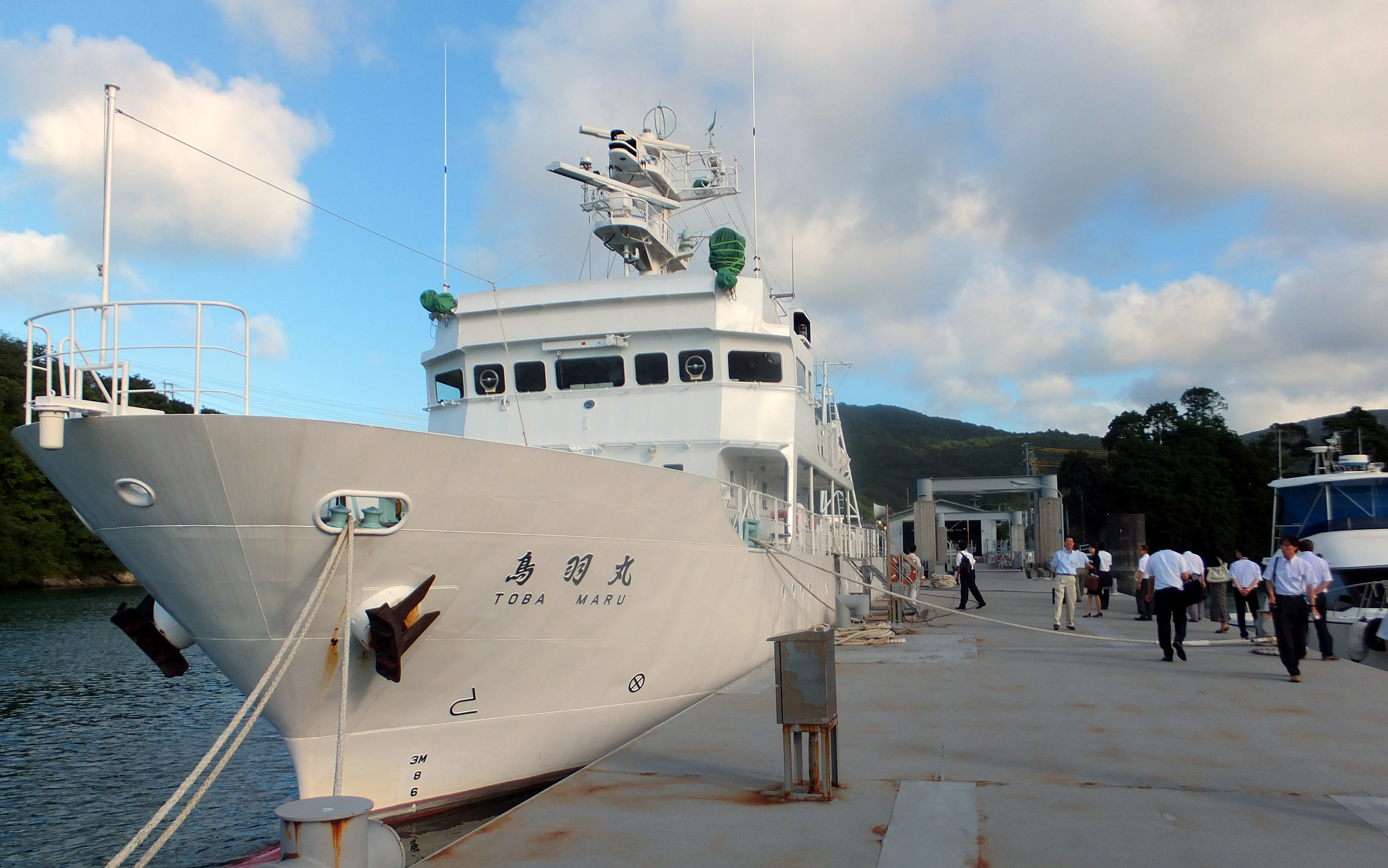 Training ship Toba Maru of National Institute of Technology Toba College